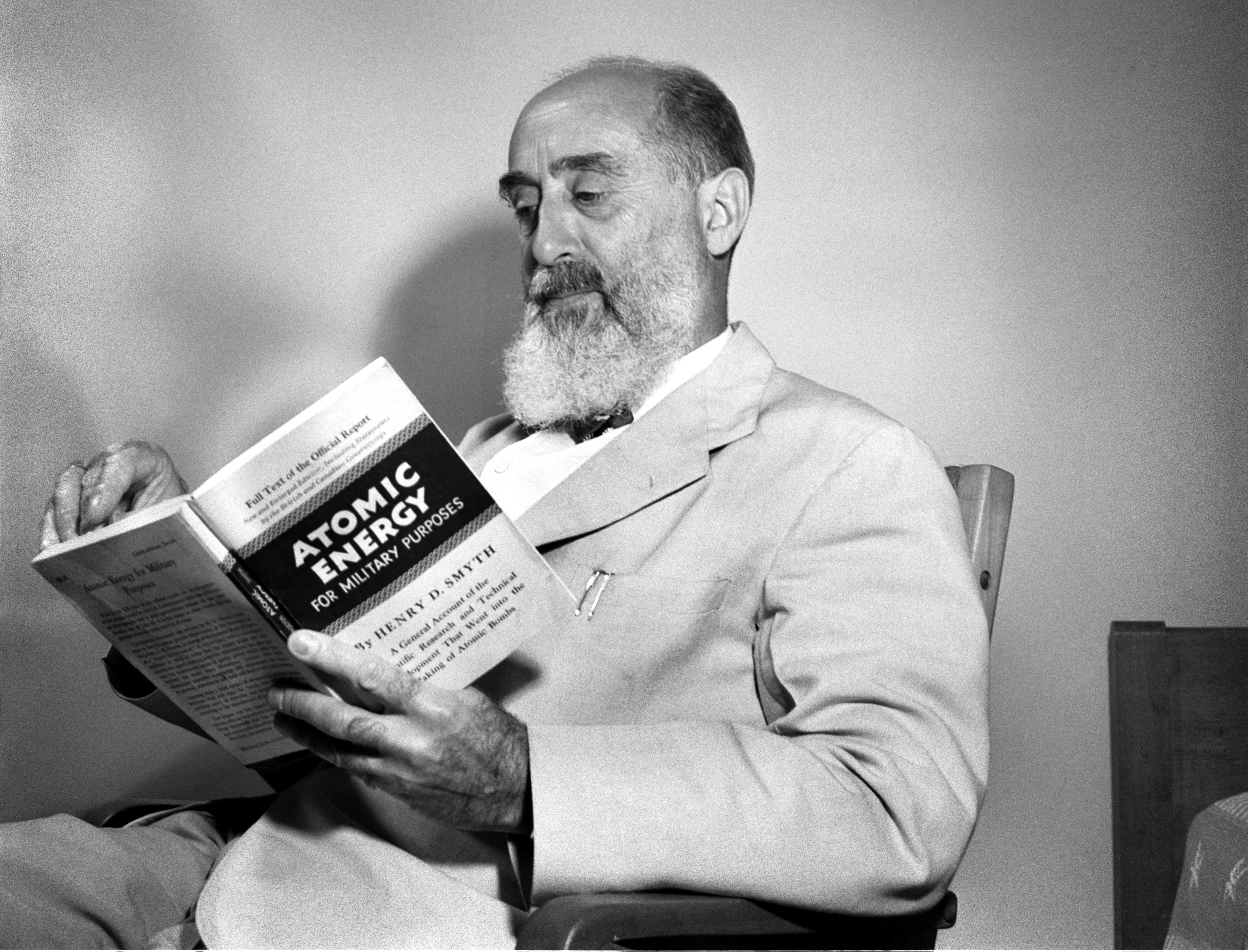 3615-4aDOE photo Ed Westcott 6-21-1947 Oak Ridge Tennessee